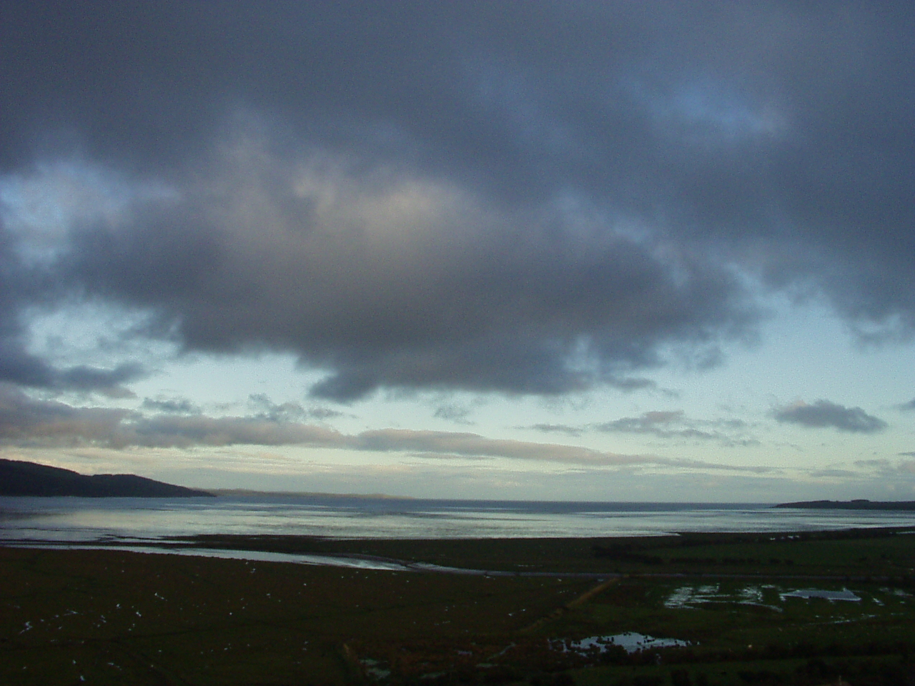 Wigtown Bay. Photo by Shaun Bythell. Wigtown Bay. Photo by Shaun Bythell.